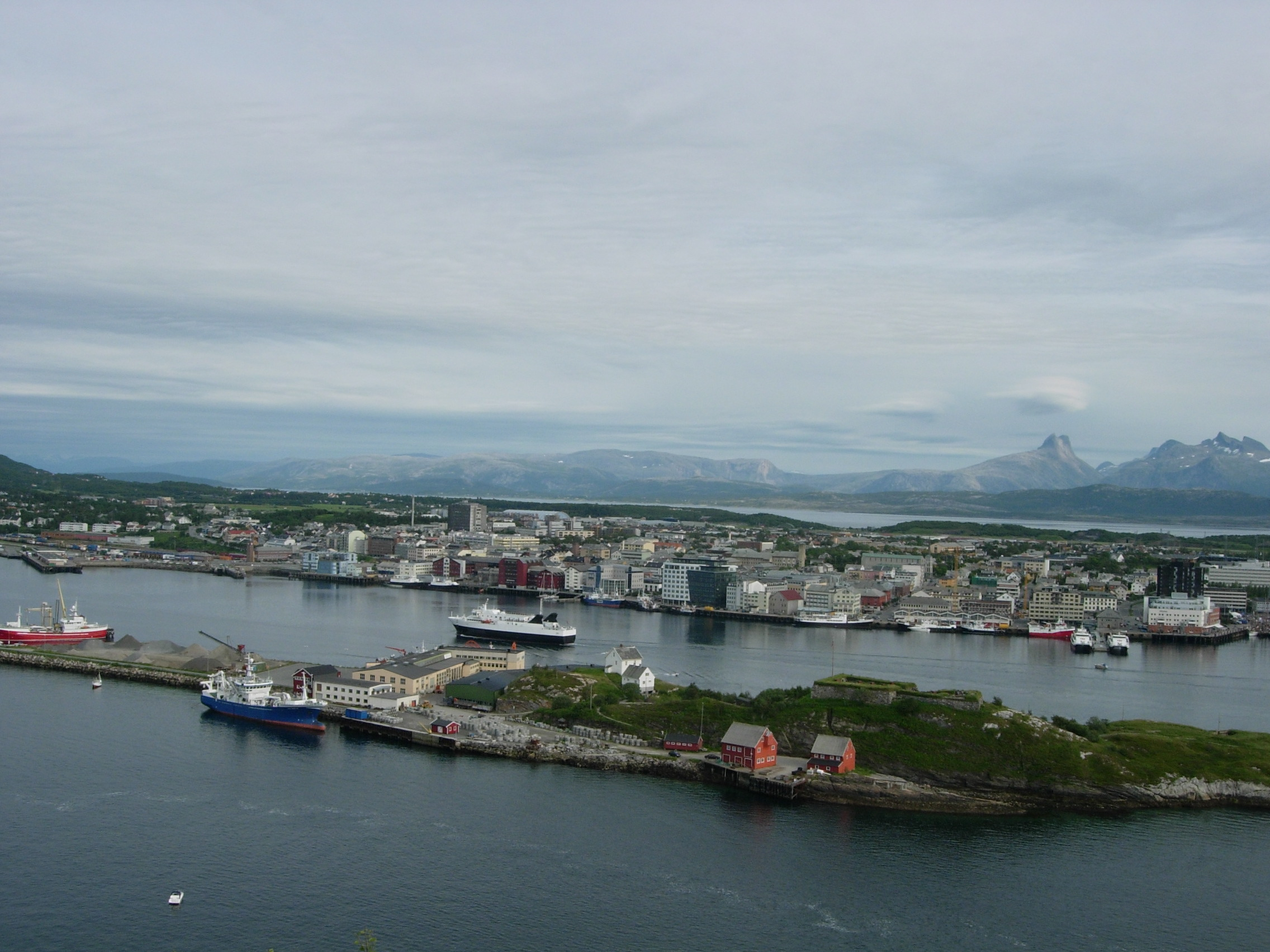 Bodø in july 2006, picture taken from Lille Hjartøya with Nyholmen in the forground